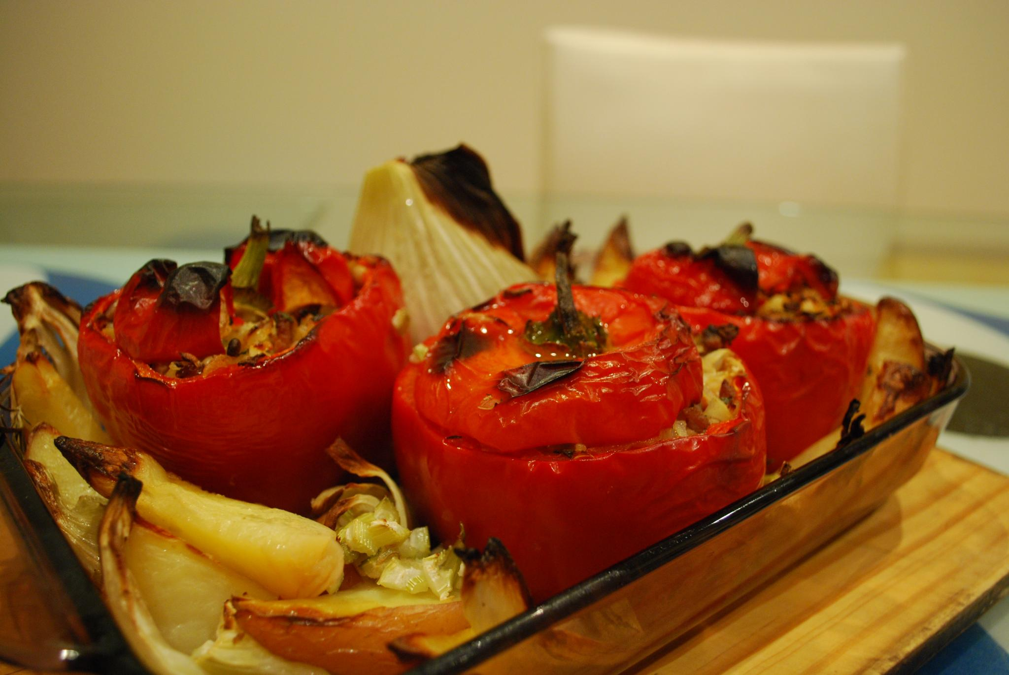 Plate of Greek Gemista (stuffed peppers or tomatoes)